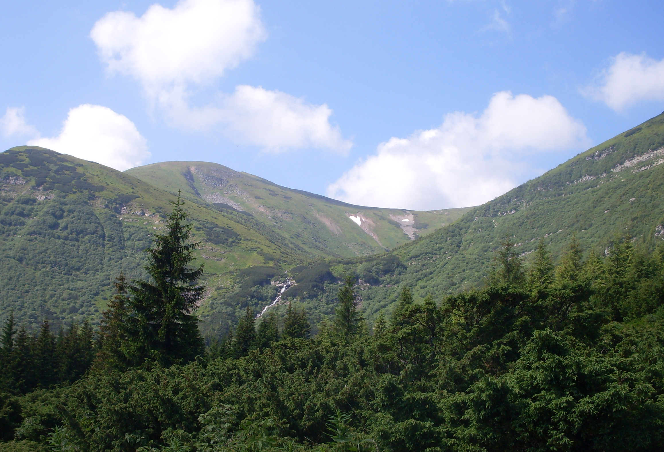 Prut River near Goverla